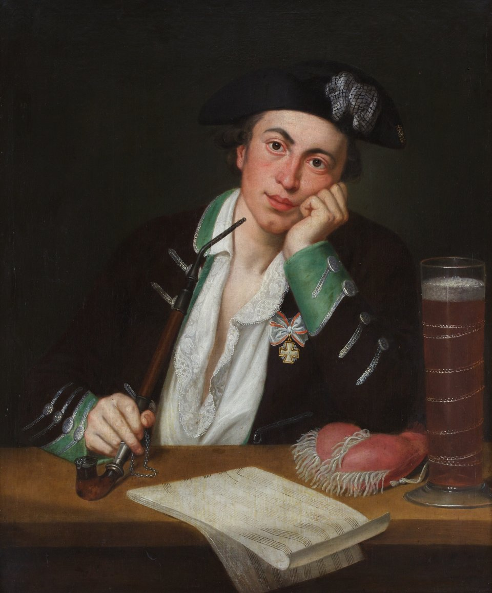 The only surviving portrait of composer Joseph Martin Kraus (1756-1792), dated 1775 and attributed to Jakob Samuel Beck.